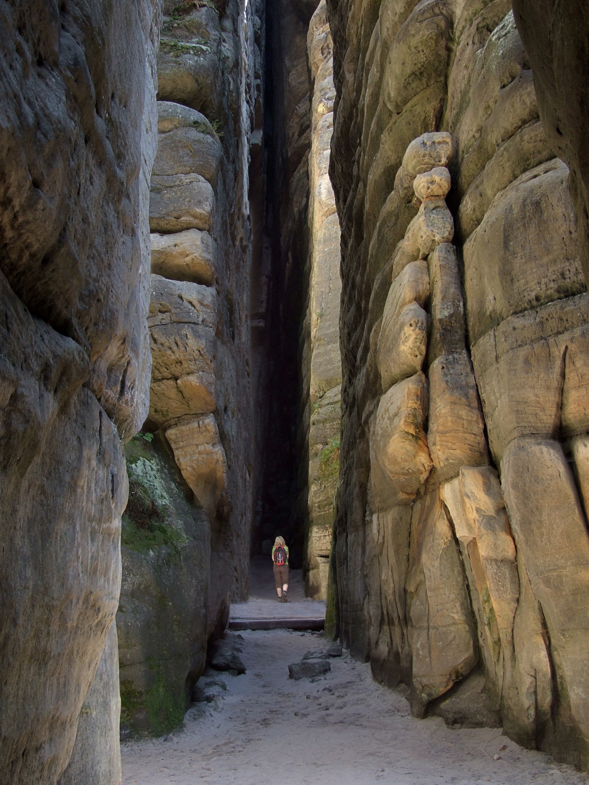 Teplické skalní město (Wekelsdorfer Felsen), Czech Republic - Skalní chrám (Felsendom)